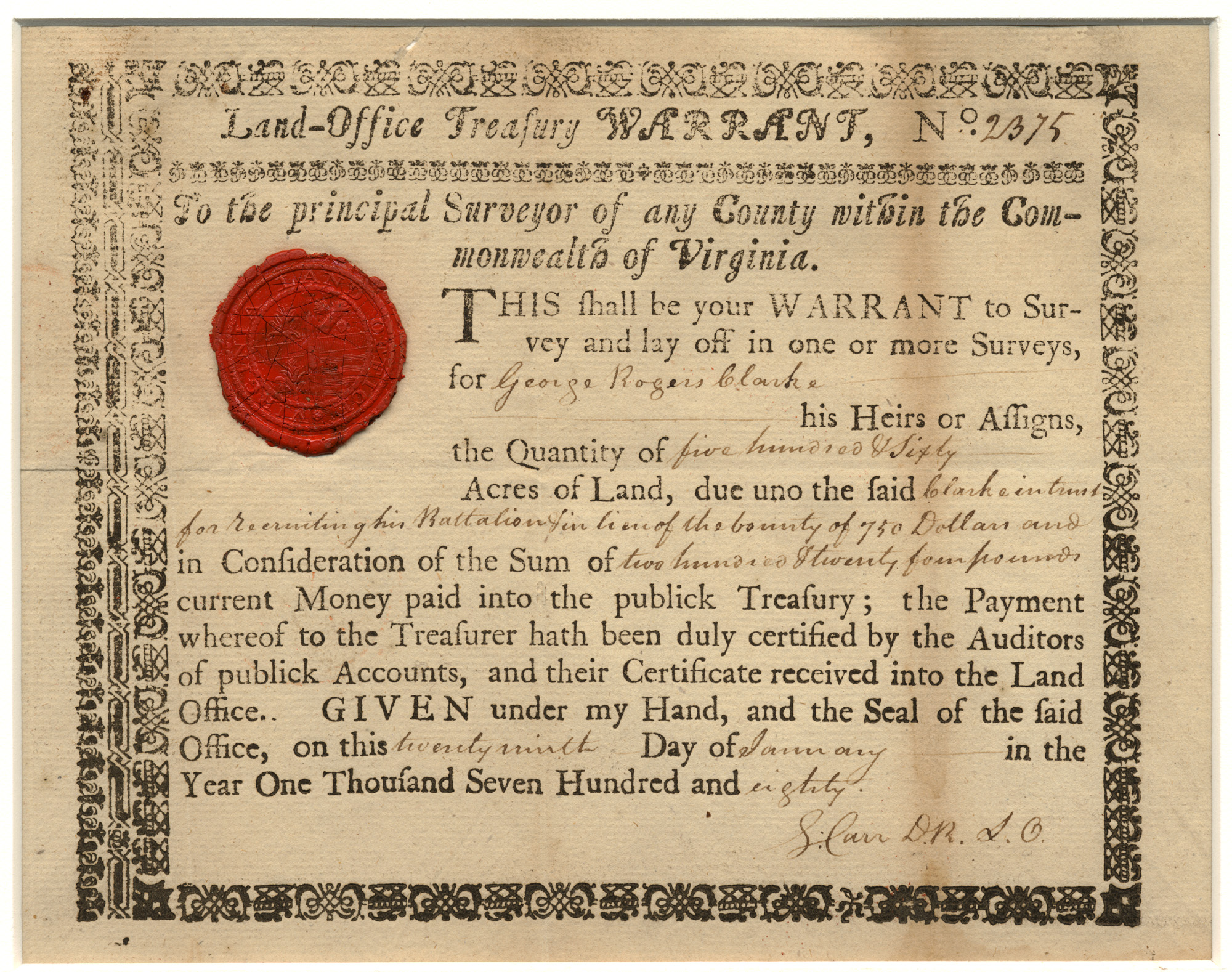 Land Office Treasury Warrant no. 2375 in the name of George Rogers Clark directing the principal surveyor of any Virginia county to lay off one or more surveys totaling 560 acres. The state of Virginia owed Clark acreage for recruiting a battalion and in lieu of a $750 bounty.